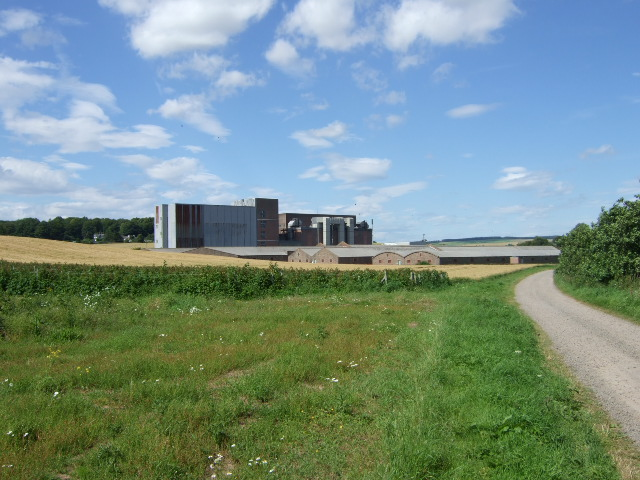 Maltings near Hillside, Angus. Former distillery of Glenesk.